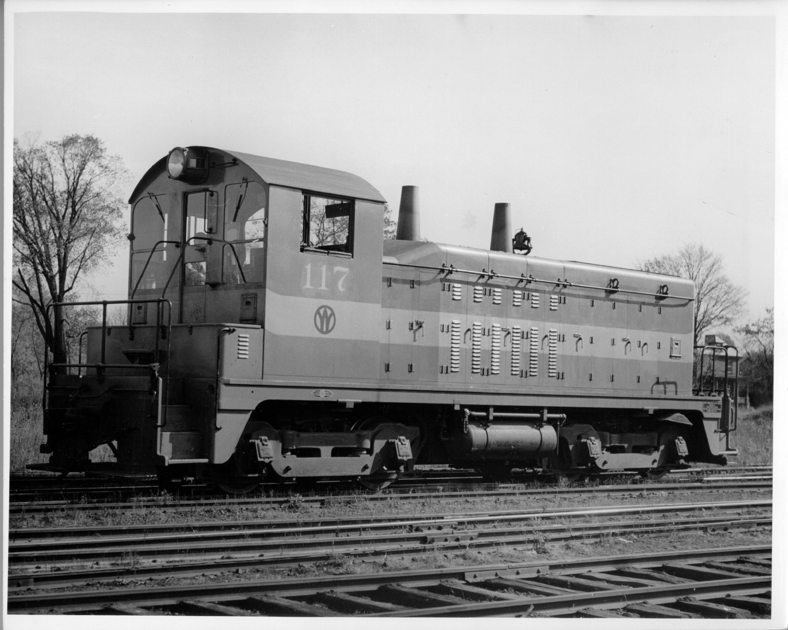 Collection: De Forest Douglas Diver Railroad Photographs, ca. 1870 - 1948, Cornell University Library Title: O&W Diesel 117 Place: New York (State) Medium: Gelatin silver print Notes: See also ID Number RMC2004_1231 Provenance: Diver, De Forest Douglas, 1878-1958, Collector Finding Aid: Location: 1948/Box 5/folder 230 RMC ID: RMC2004_1230 Persistent URI: There are no known U.S. copyright restrictions on this image. The digital file is owned by the Cornell University Library which is making it freely available with the request that, when possible, the Library be credited as its source. We had some help with the geocoding from Web Services by Yahoo!